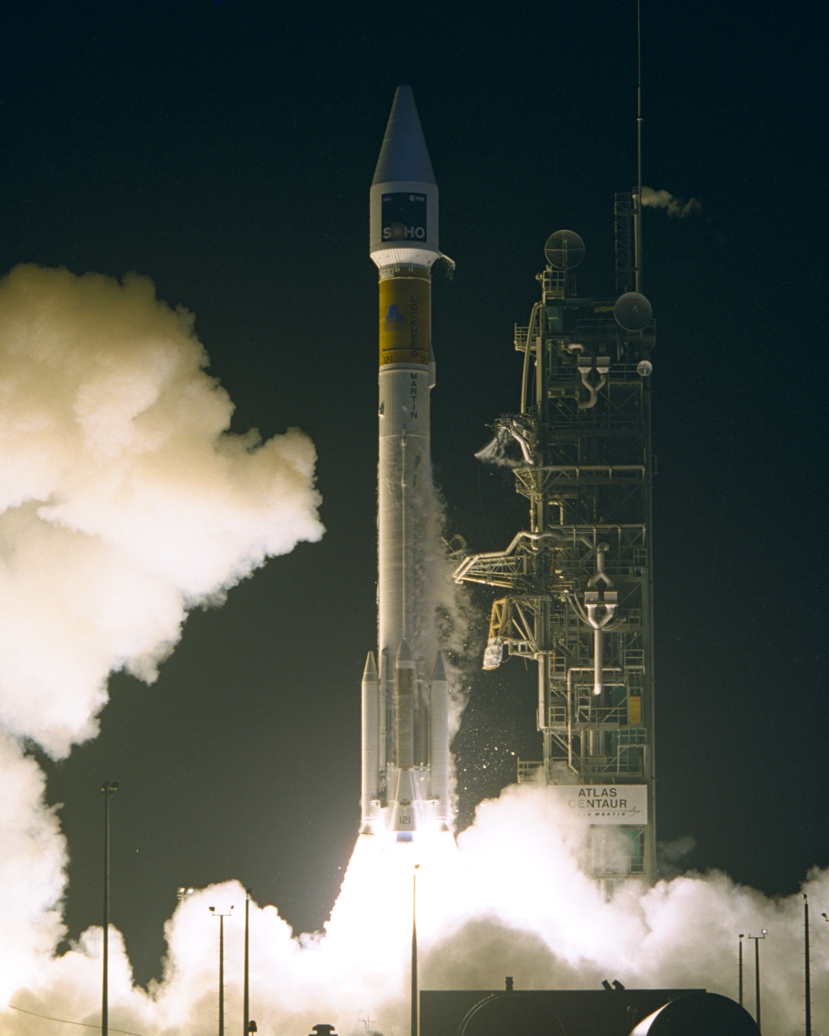 The Solar Heliospheric Observatory (SOHO) is launched atop an ATLAS-IIAS expendable launch vehicle. Liftoff from launch complex 36B at Cape Canaveral Air Station marked the 10th Atlas launch from the Eastern range for 1995. SOHO is a cooperative effort involving NASA and the European Space Agency (ESA) within the framework of the International Solar-Terrestrial Physics Program. During its 2-year mission, the SOHO spacecraft gathered data on the internal structure of the Sun, its extensive outer atmosphere and the origin of the solar wind.